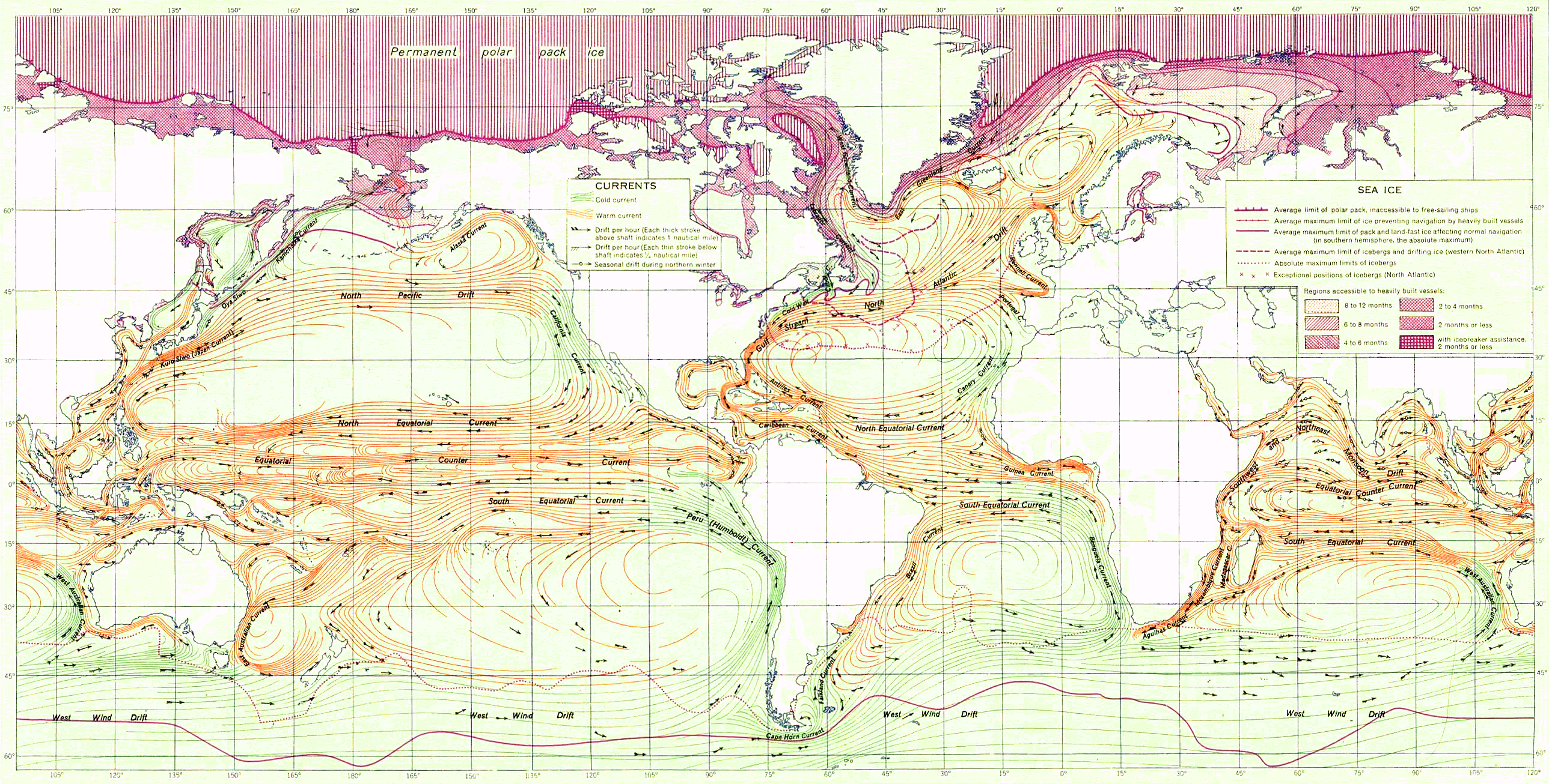 Ocean Currents and Sea Ice from Atlas of World Maps, United States Army Service Forces, Army Specialized Training Division. Army Service Forces Manual M-101 (1943). It could be drawn by the Miller cylindrical projection announced in 1942.